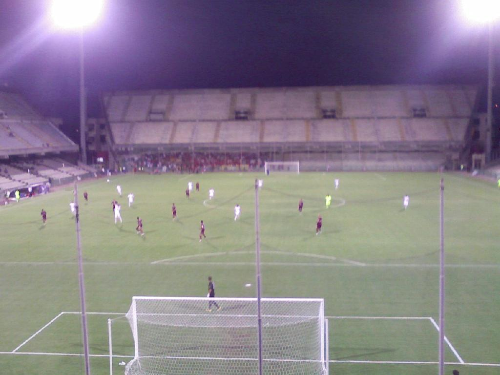 Soccer Match of Coppa Italia (Tim Cup, Italy Cup) 2009-2010 - Salernitana v Benevento 1-0